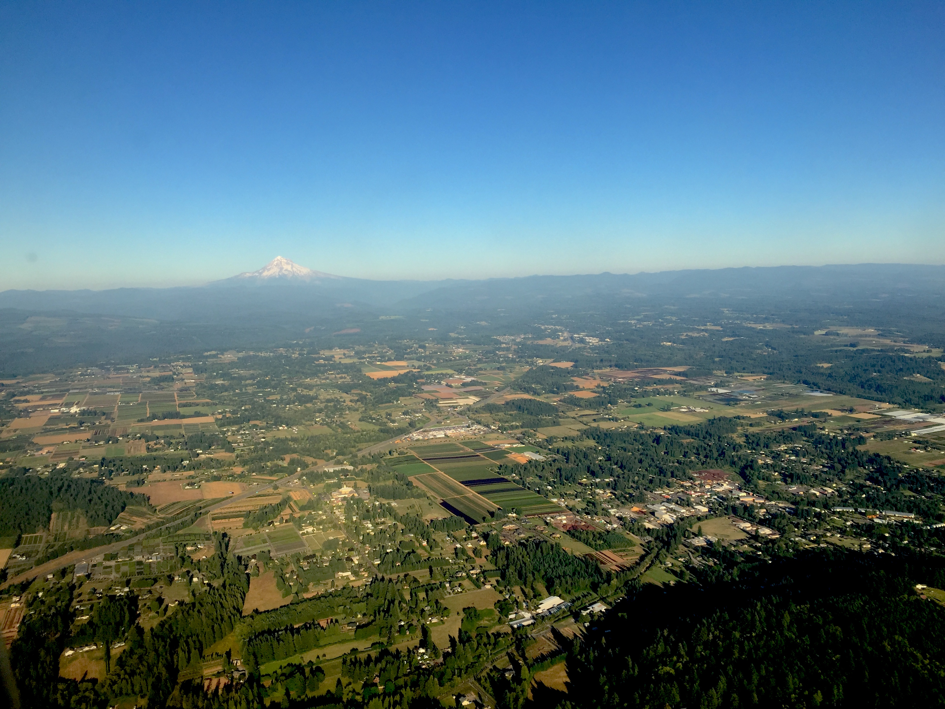 Aerial view of Boring and Damascus, Oregon